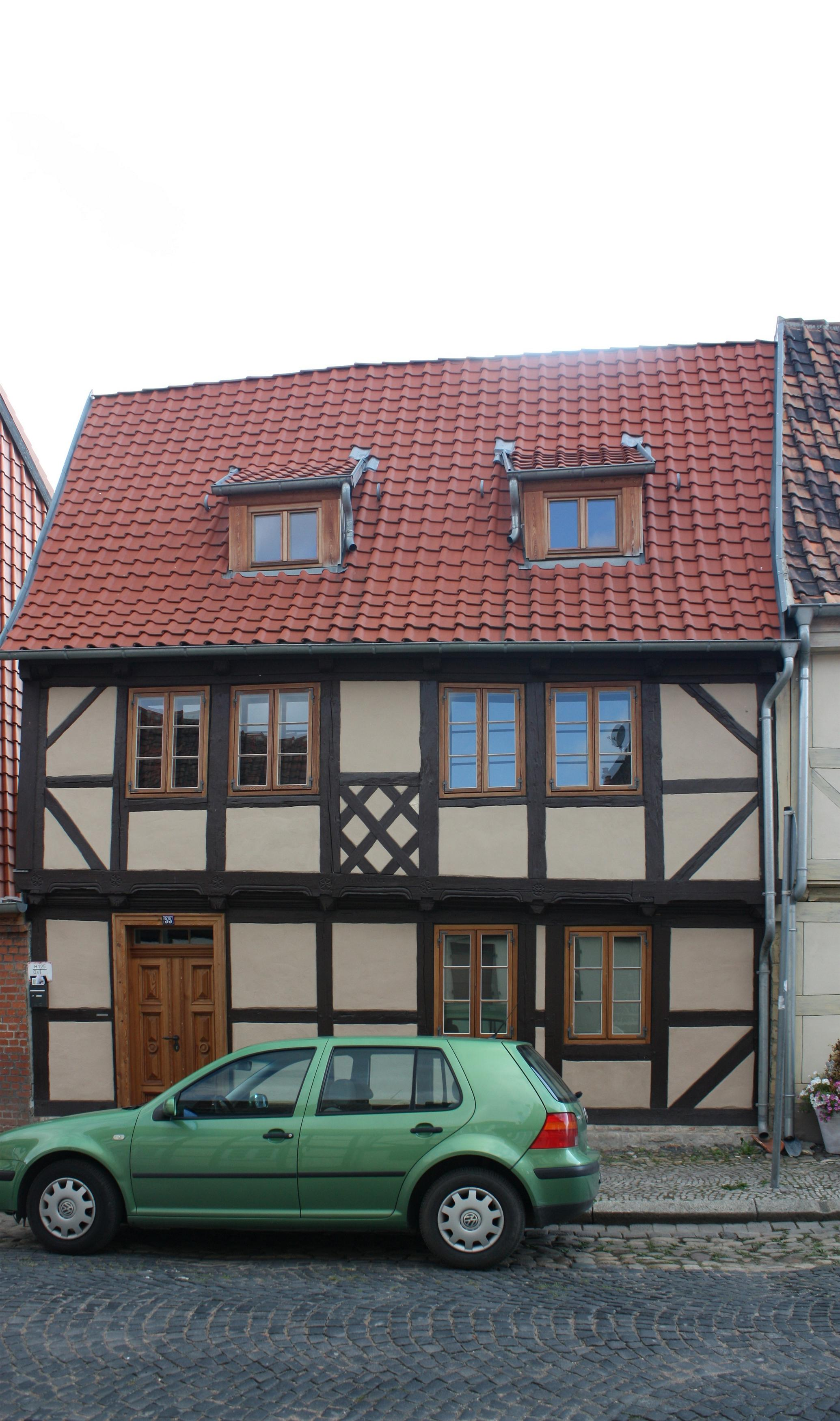 This is a photograph of an architectural monument.It is on the list of cultural monuments of Quedlinburg Augustinern 55 in Quedlinburg